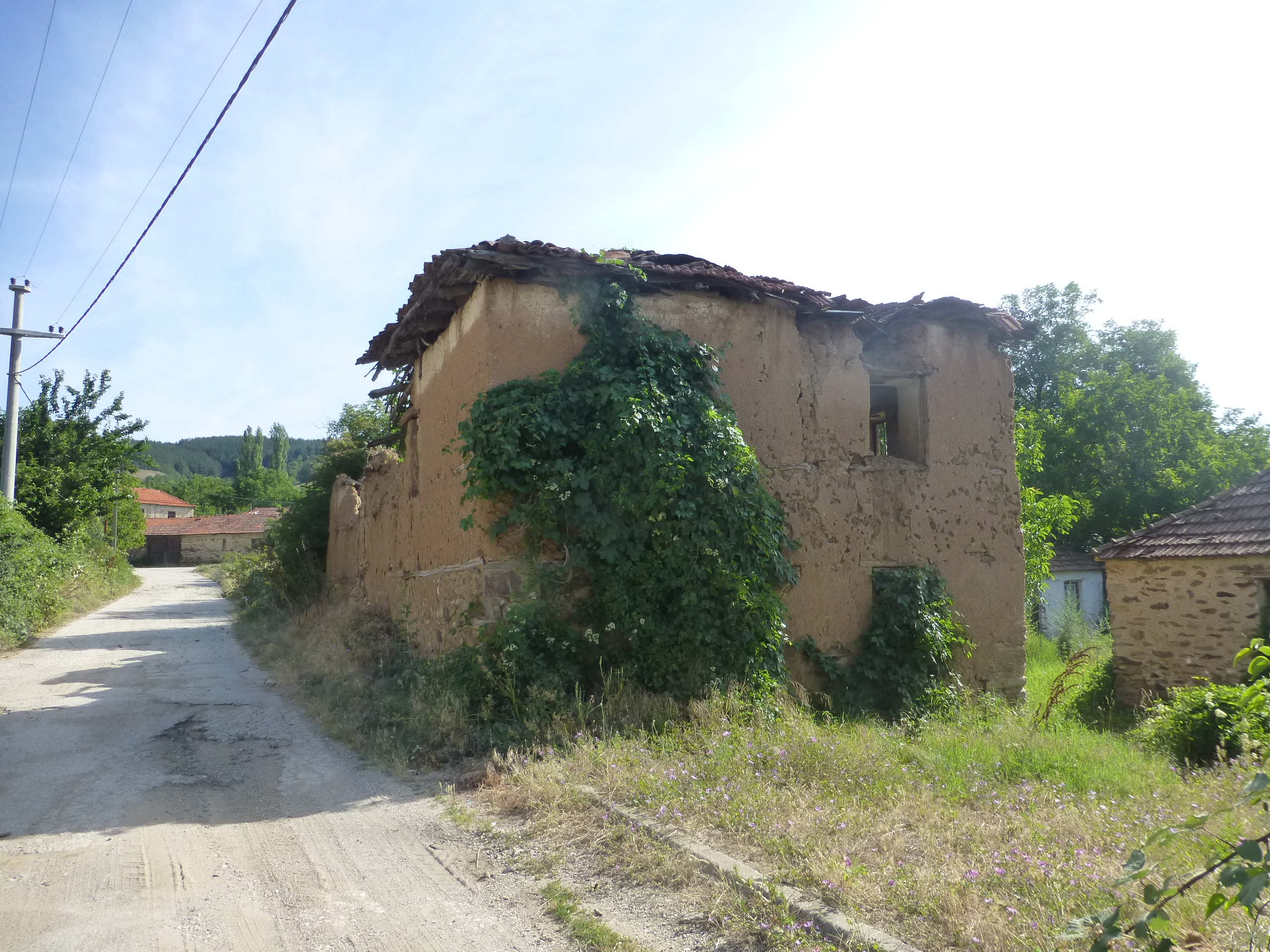 Crnovec village (off Macedonian Hwy P1305, between Demir Hisar and Bitola). Old adobe houses, storch nests...